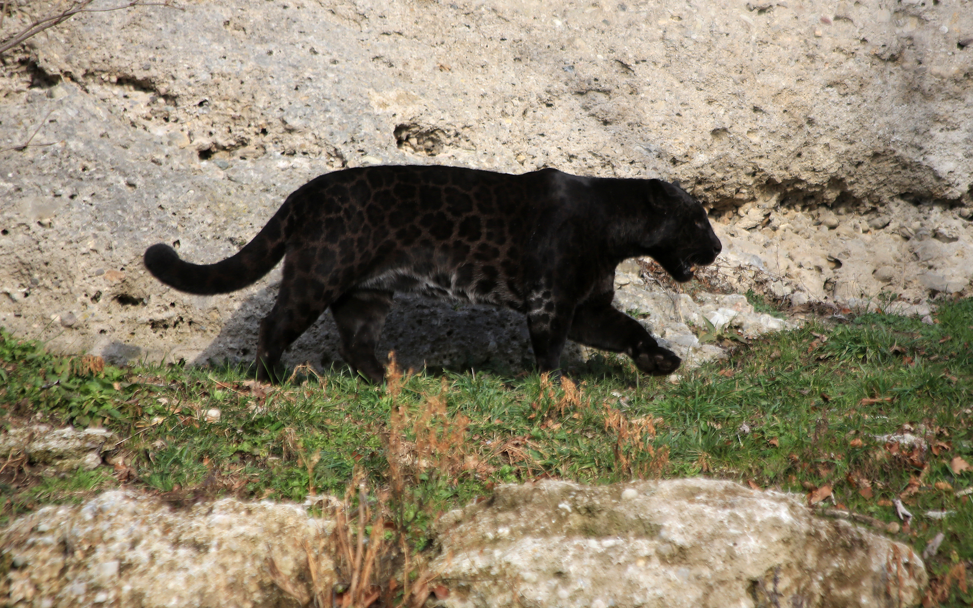 Jaguar (Panthera onca) at Salzburg Zoo (Salzburg, Austria).